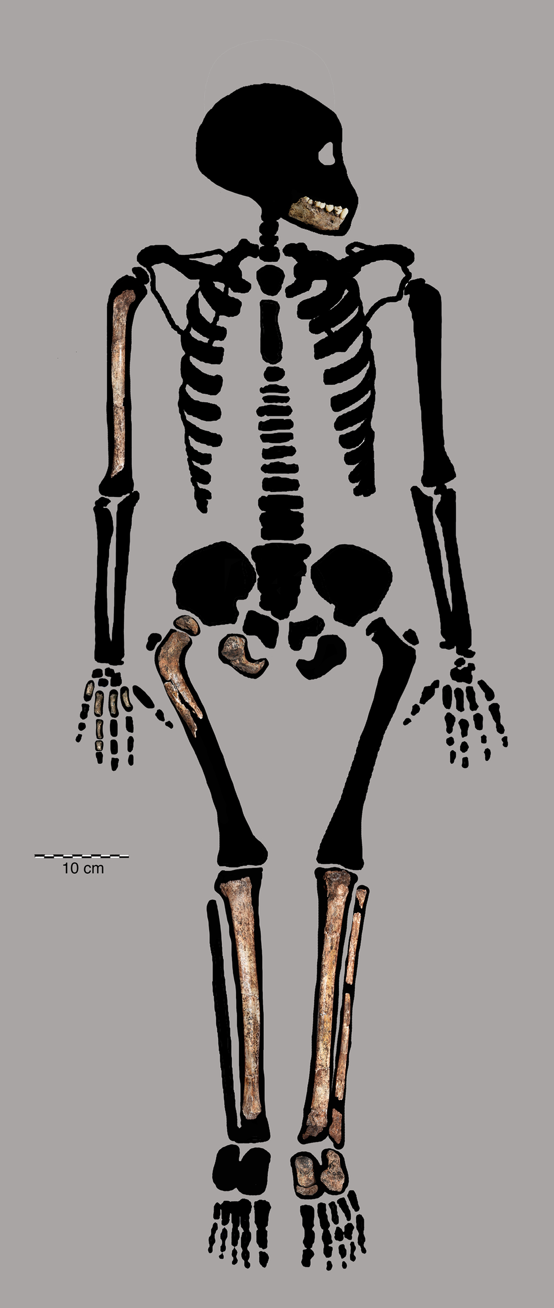 Skeletal reconstruction with known remains of a juvenile Homo naledi specimen, DH7